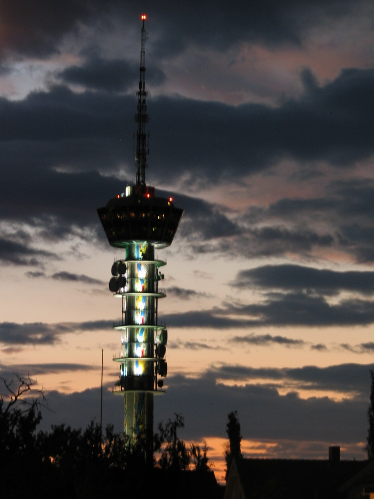 Tyholttårnet TV and radio tower in Trondheim